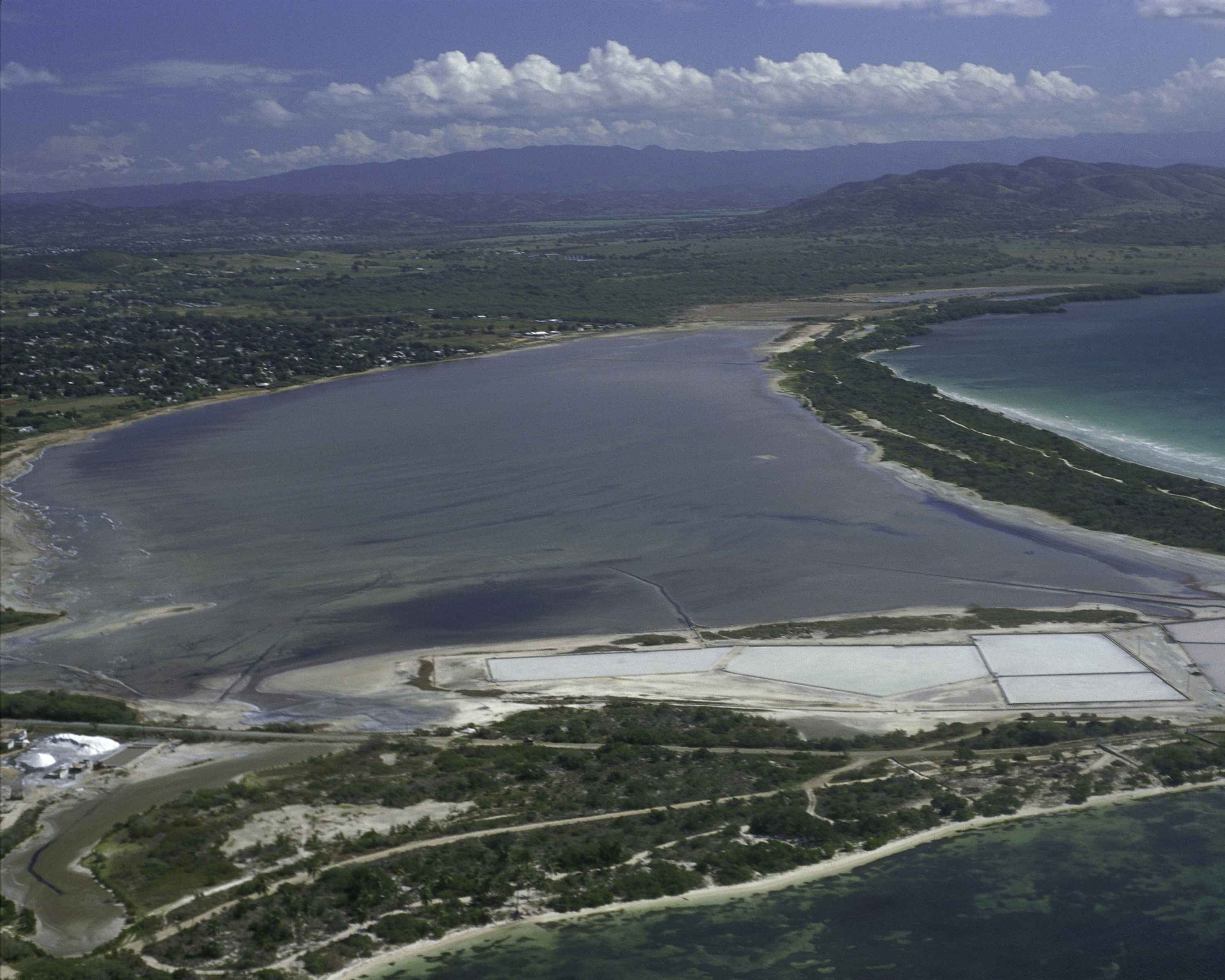 Image title: Cabo Rojo national wildlife refuge Puerto Rico Image from Public domain images website